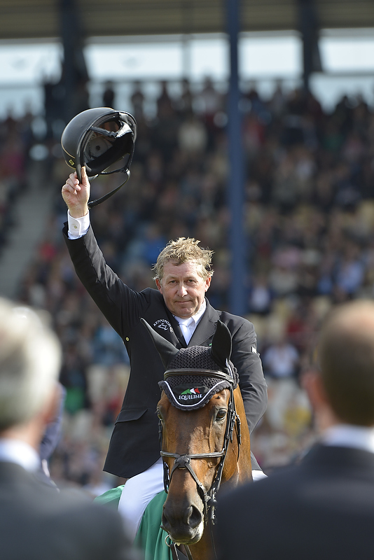 Nick Skelton (GBR) and Big Star winners of the Rolex Grand Prix